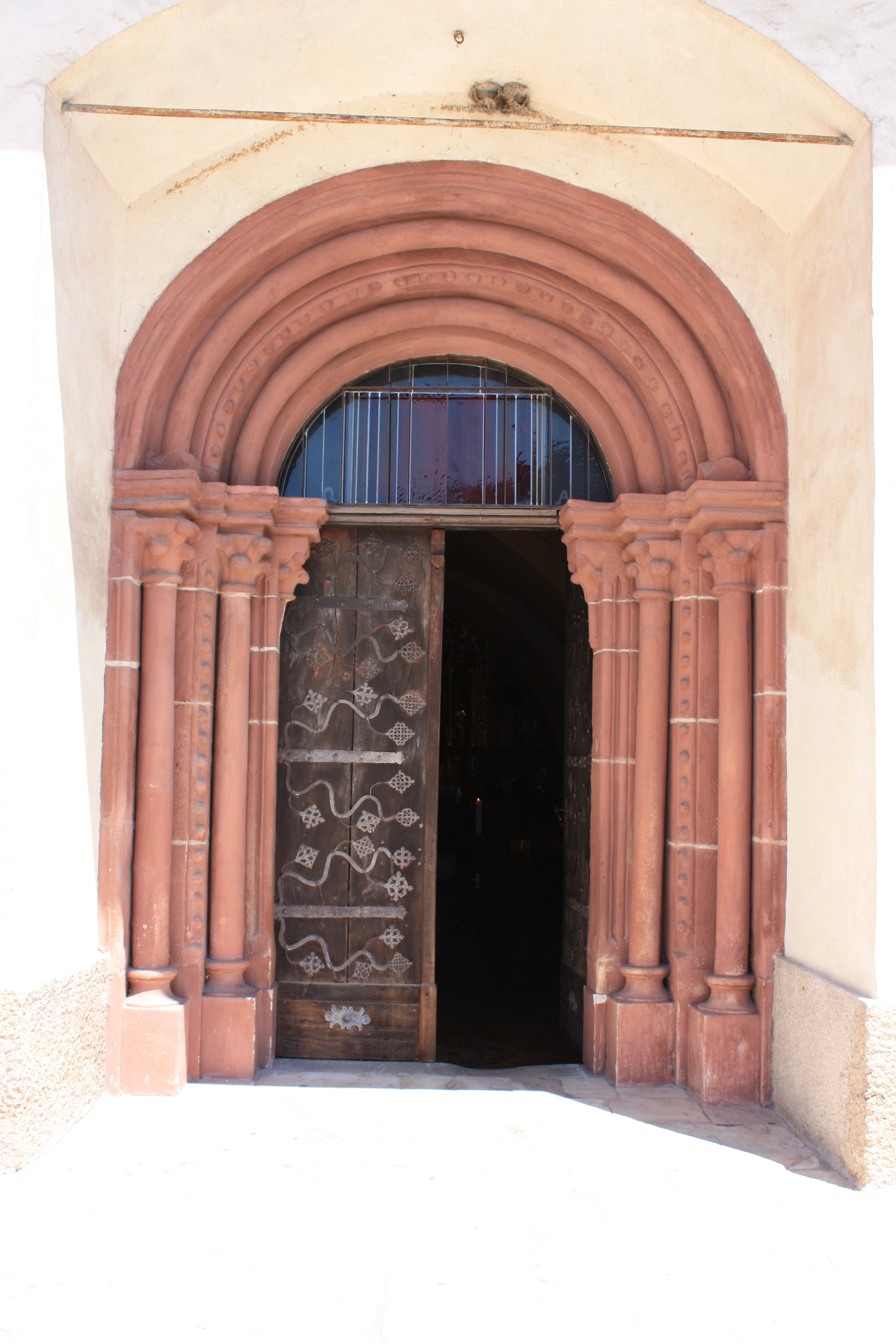 Parish church "Maria Magdalena": Portal Street:Kirchengasse Community:Völkermarkt